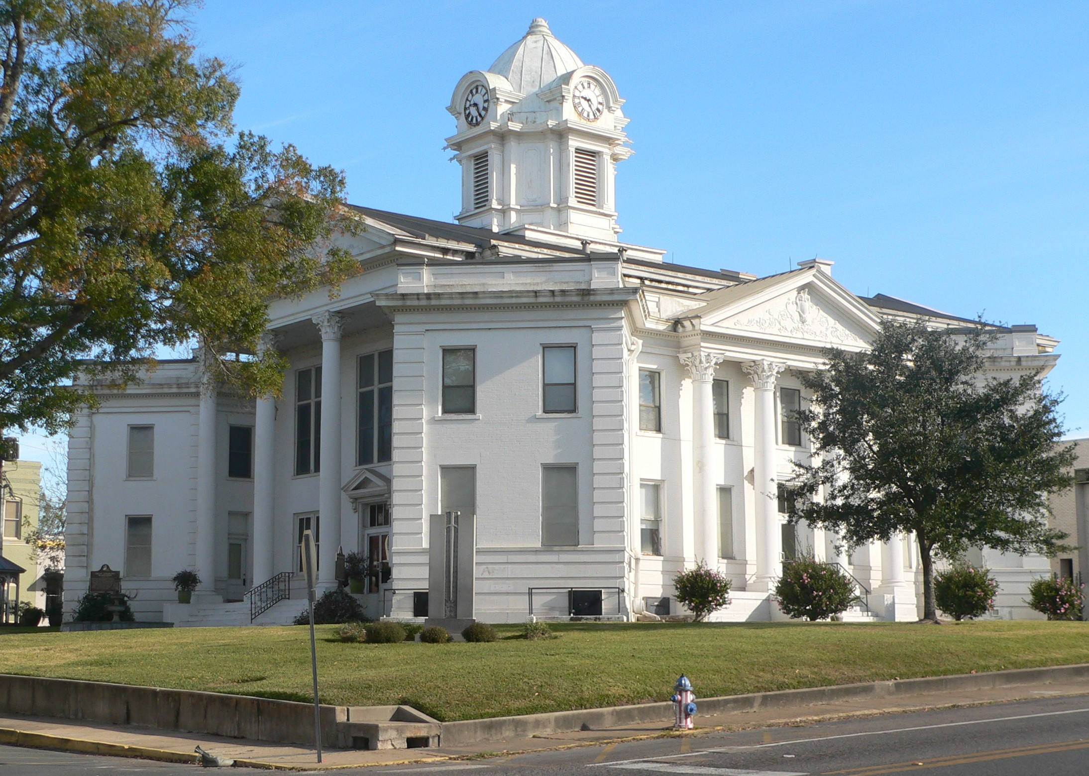 Vernon Parish courthouse in Leesville, Louisiana; seen from the southwest, from the intersection of Third and Lula Streets.